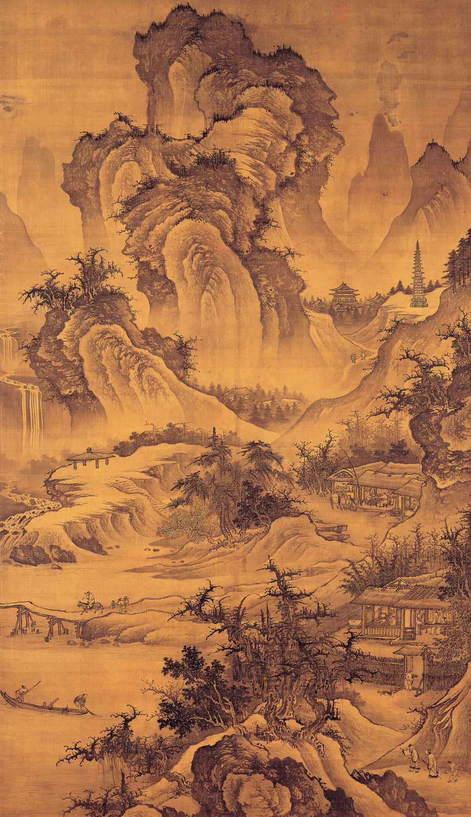 Mountain Hamlet, Lofty Retreat, hanging scroll, Ink on silk, 188.8 x 109.1 cm. Located at the National Palace Museum, Taibei. The painting was originally attributed to Guo Xi.